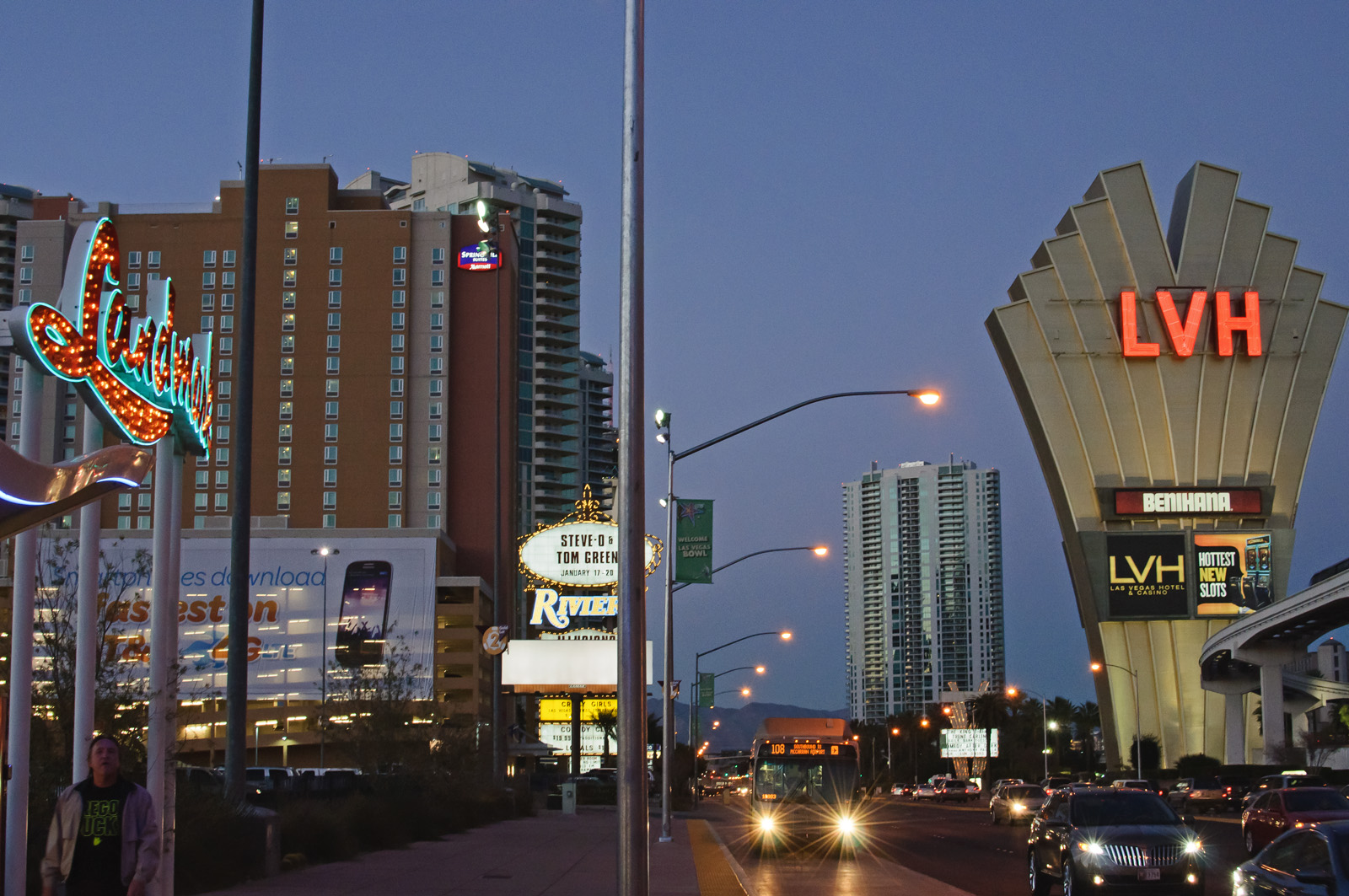 Looking north on Paradise Road, from the corner of Convention Center Drive. To the left is the site of, and the sign for, the Landmark, which had served as the exterior for the uppermost floors of the Whyte House during Sean Connery's stunt scenes in the 1971 James Bond movie Diamonds Are Forever. To the right is the sign for the newly rebranded (in 2012) Las Vegas Hotel, or LVH, which had opened in 1969 as the International and was known for most of its life as the Las Vegas Hilton; in Diamonds Are Forever, the overview of the Whyte House used the LVH, already the largest hotel in the world at the time, as its lower half, with the upper half drawn/rendered in by hand. A bit in the distance is the Riviera, another old hotel from the Diamonds Are Forever era and the filming location for a few of the scenes. But this view is also very telling of the vast changes Las Vegas has gone through since those times. Las Vegas is now a sizable metropolis, and now comes with all the requisite trappings, such as high-rise luxury condominiums, large non-gaming hotels like the Marriott Spring Hill Suites on the left, and public transportation like the Regional Transit Commission bus and the monorail. Population has grown exponentially while at it, and the empty, rural Las Vegas Valley seen in the movie Diamonds Are Forever is now running out of land to build on. Las Vegas's economy remains heavily dependent on service and tourism, however, and its low standards of education and public services will keep it that way for a while longer, subjecting the area to wild economic swings like the ones experienced in the 2001 and 2009 recessions.